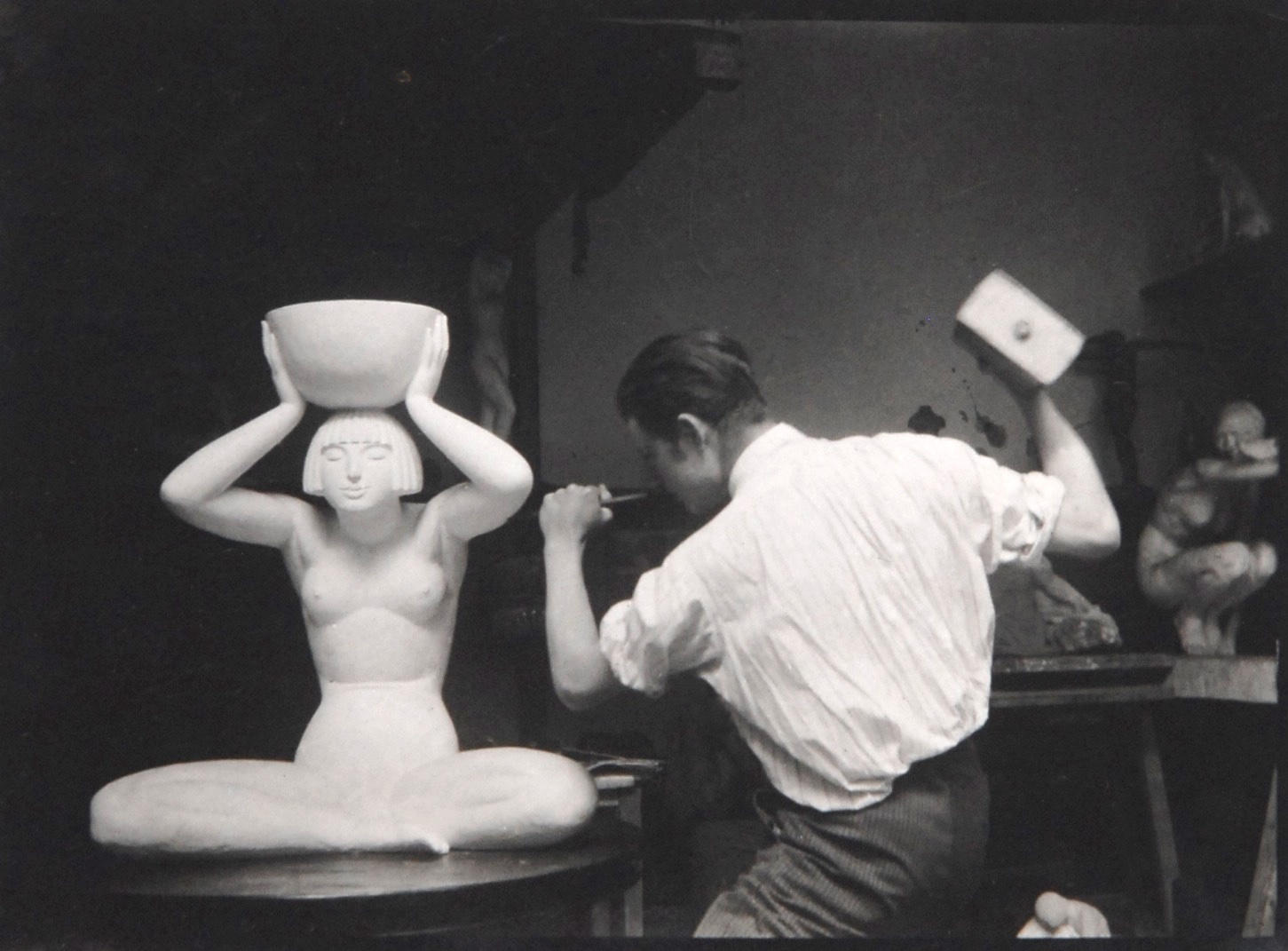 The american sculptor Cecil Howard in his studio around 1913-14, finishing his direct cutting stone sculpture entitled "The Bowl", presented in 1914 at the Paris Salon de la Société Nationale des Beaux-Arts.